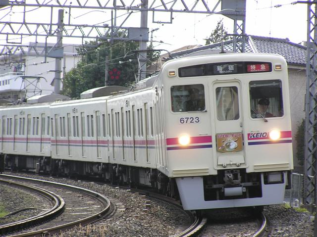 I don't understand English. I can use Japanese only. Sorry. Taked date 2006/3/21 Taked human Ichikawa Taichi （市川太一） Taked place 高幡不動―南平 Content 6000系5→4扉改造車特急運用 No Trimminged Public domain so all free to use.